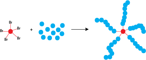 image for star initiator for ATRP